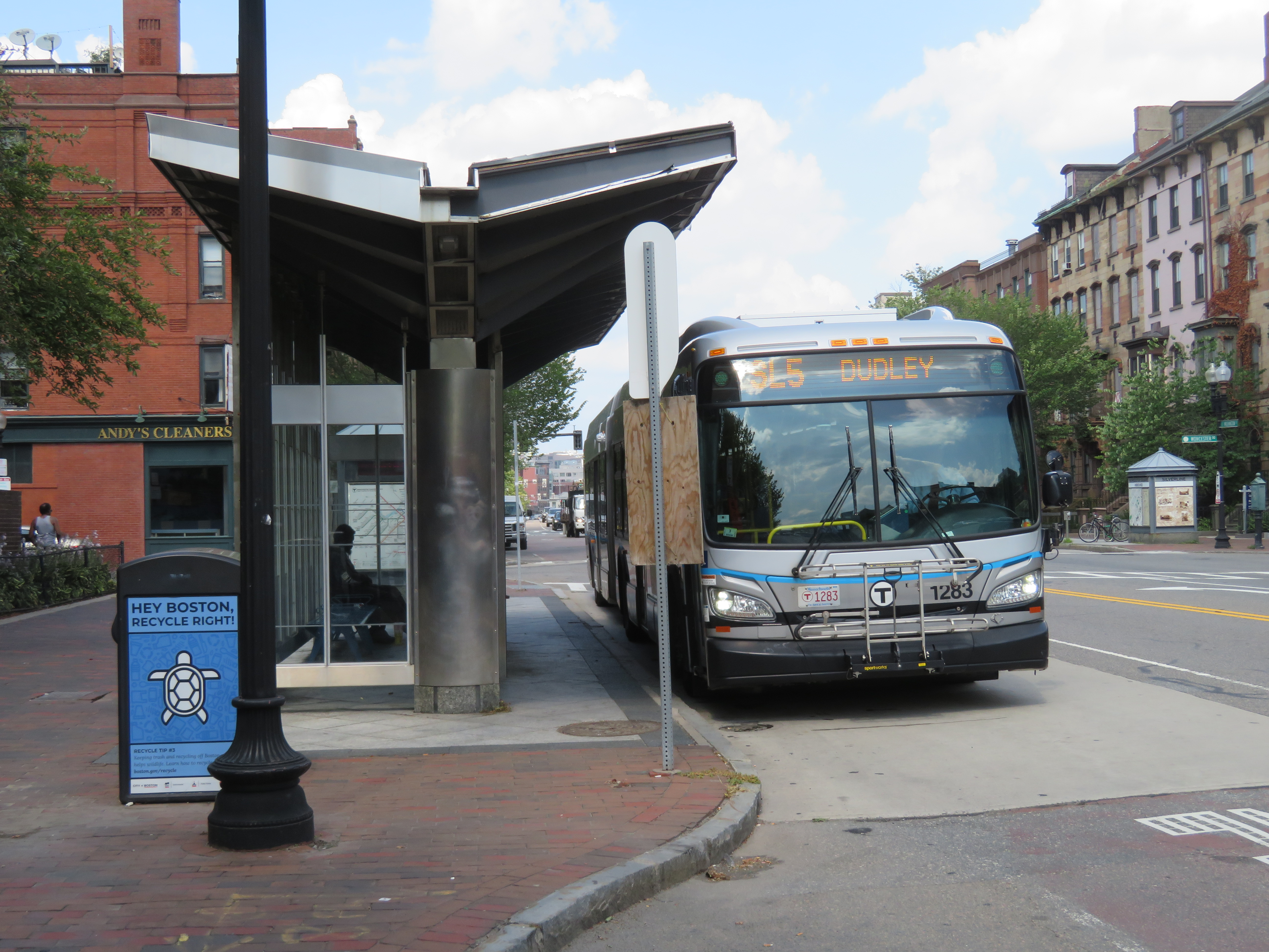 MBTA route SL5 bus outbound at Worcester Square in July 2019